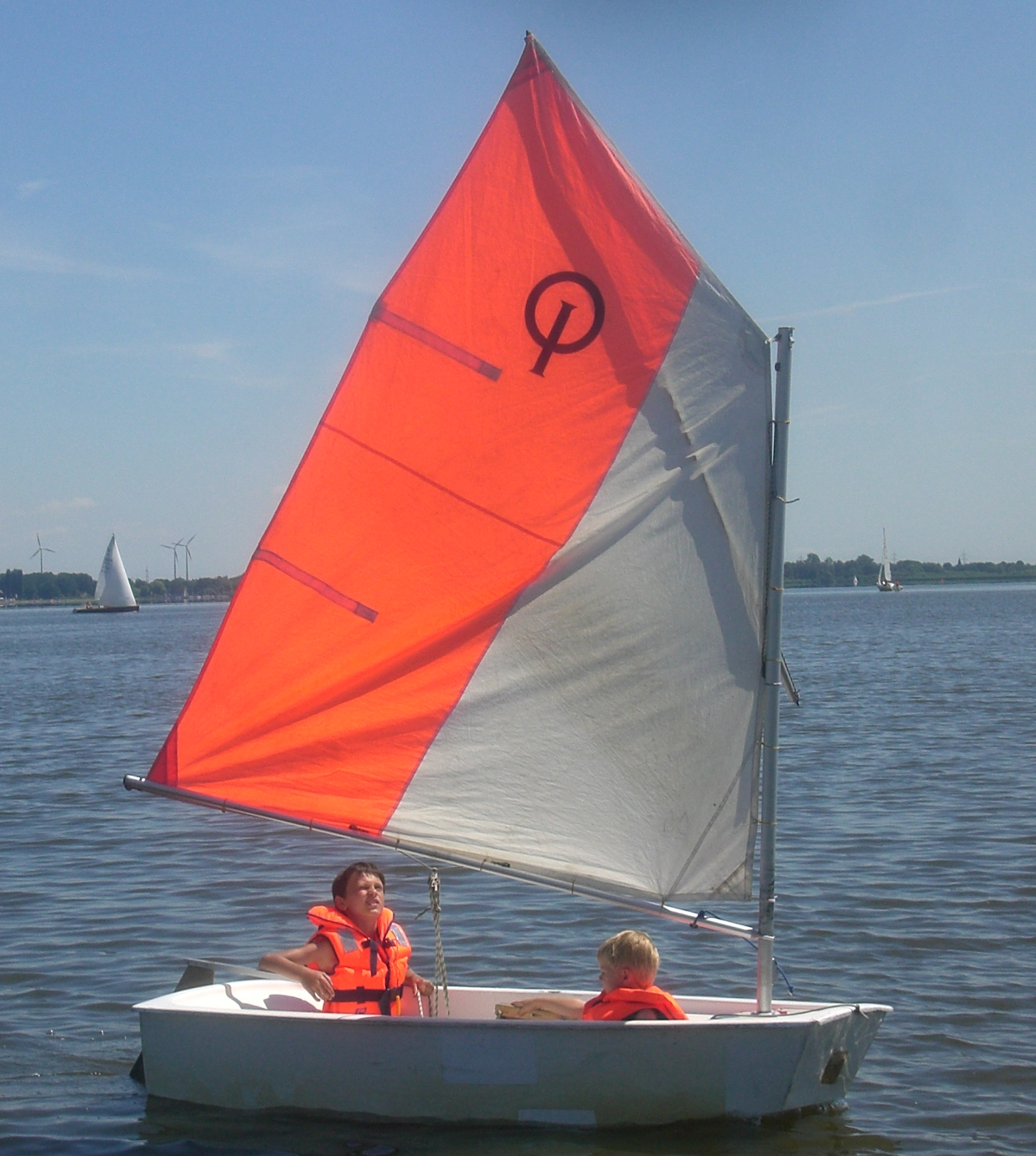 Optimist on the lake Dümmer in Germany